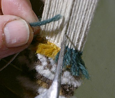 carpet knotting